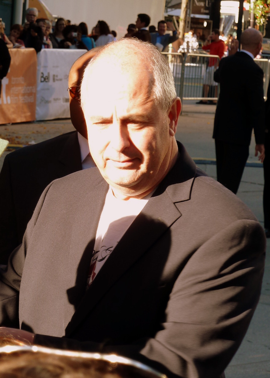 Roger Michell (a South African film director) at the premiere of Hyde Park on Hudson, Toronto Film Festival 2012